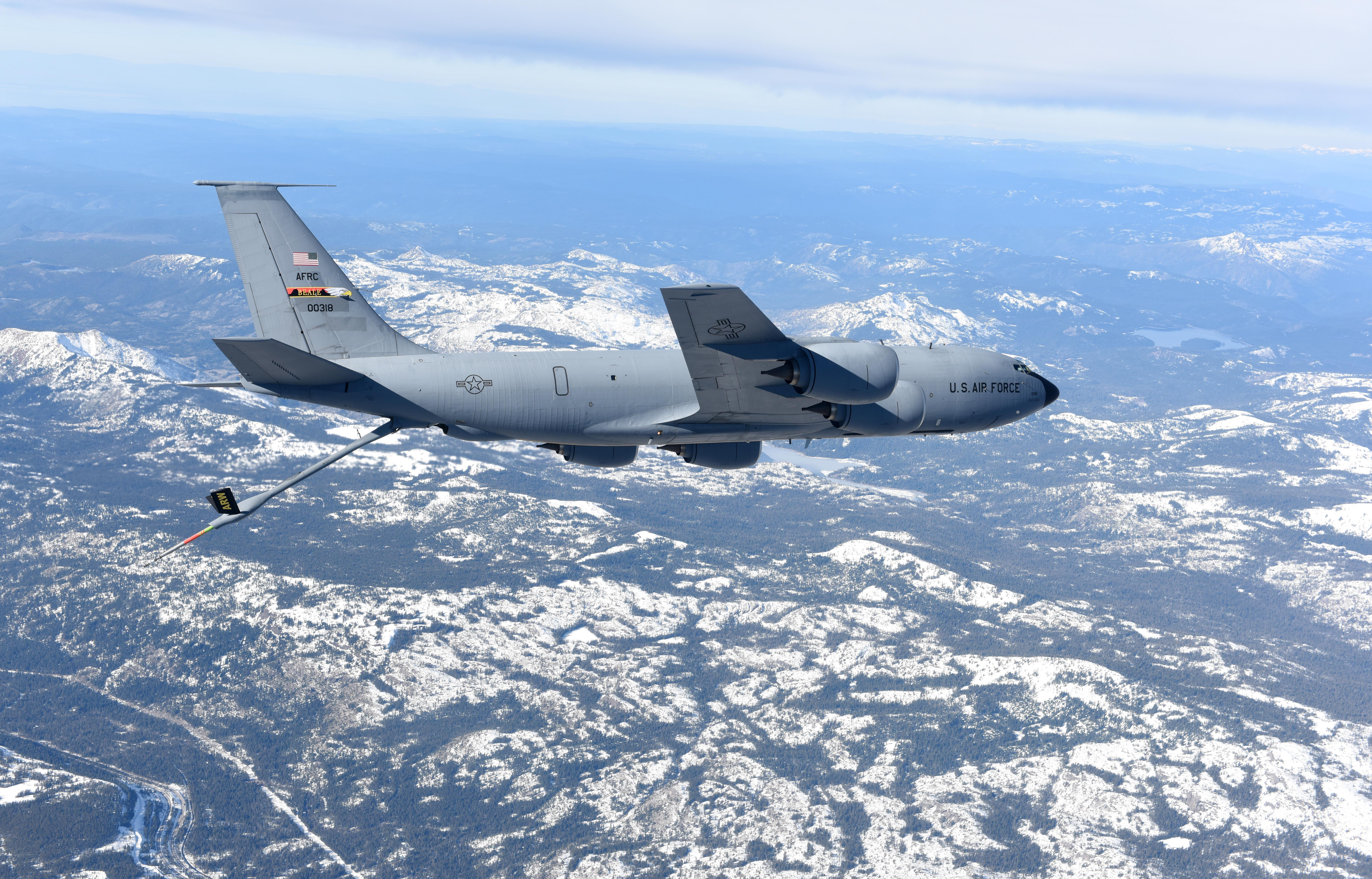 A KC-135 Stratotanker with the 314th Air Refueling Squadron, Beale Air Force Base, California, soars above the Sierra Nevada Mountains, December 22, 2016. KC-135s have played a vital role in the United States Air Forces aerial refueling capabilities since the 1950s. (U.S. Air Force photo/ Staff Sgt. Bobby Cummings)